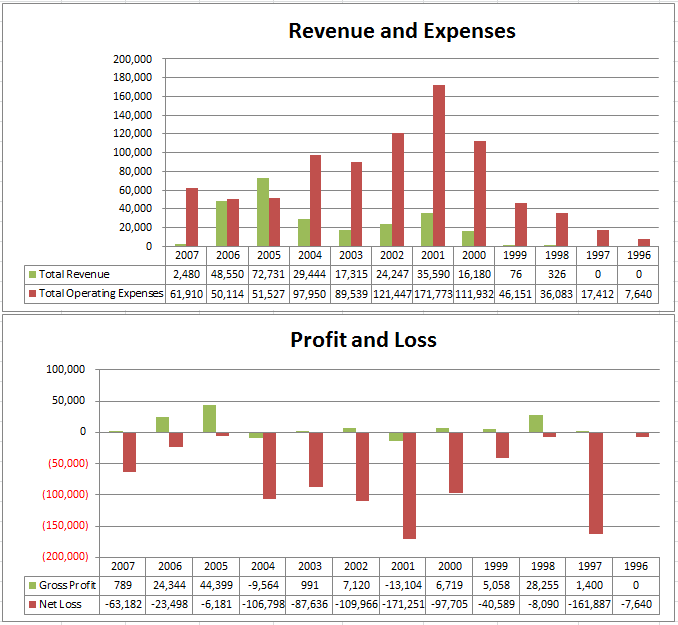 Shows revenues, expenses, gross profit and losses for Transmeta from 1996 to 2007.png